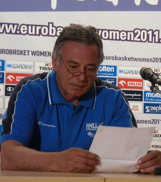 The Greek women's national basketball team coach, Konstandinos Missas, participating in the FIBA EuroBasket Women 2011 contest.